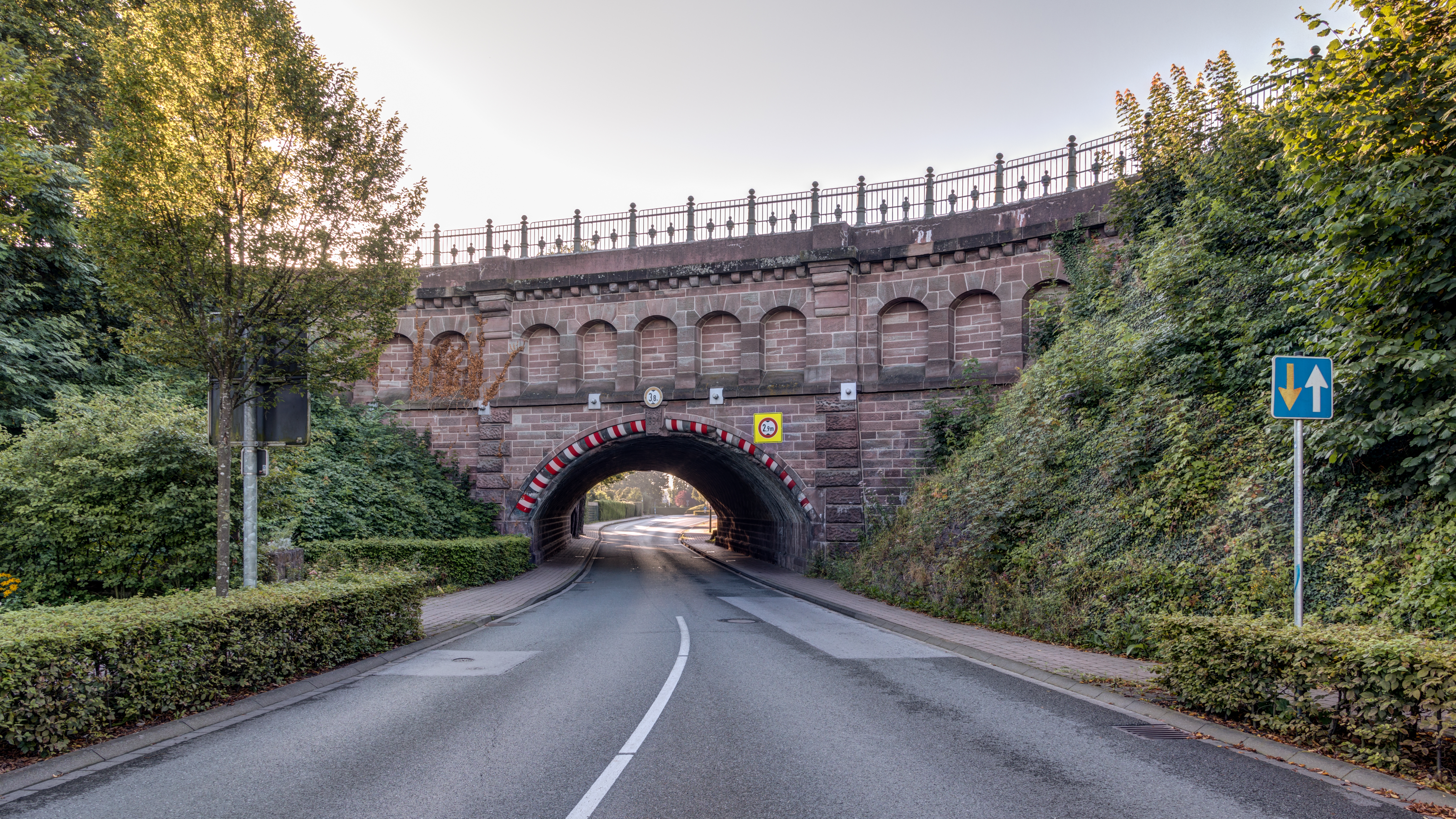 Bridge of the old Dortmund-Ems chanel (Selmer Straße) in Olfen, North Rhine-Westphalia, Germany This image shows a heritage building in Germany, located in the North Rhine-Westphalian city Olfen (no. 35).